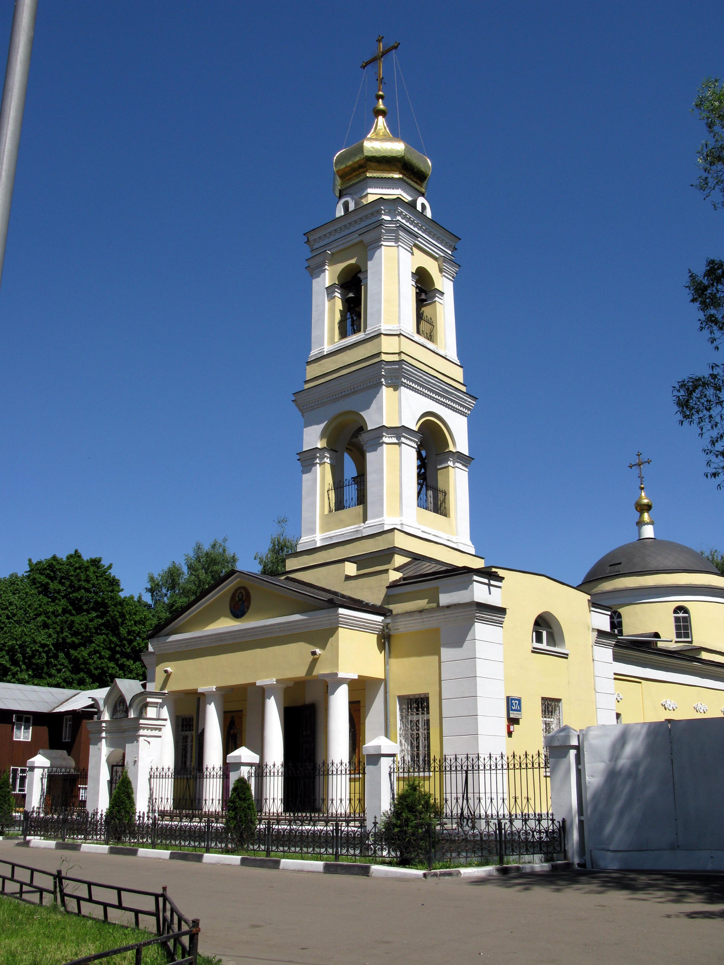 Goliyanovo, Moscow - Church